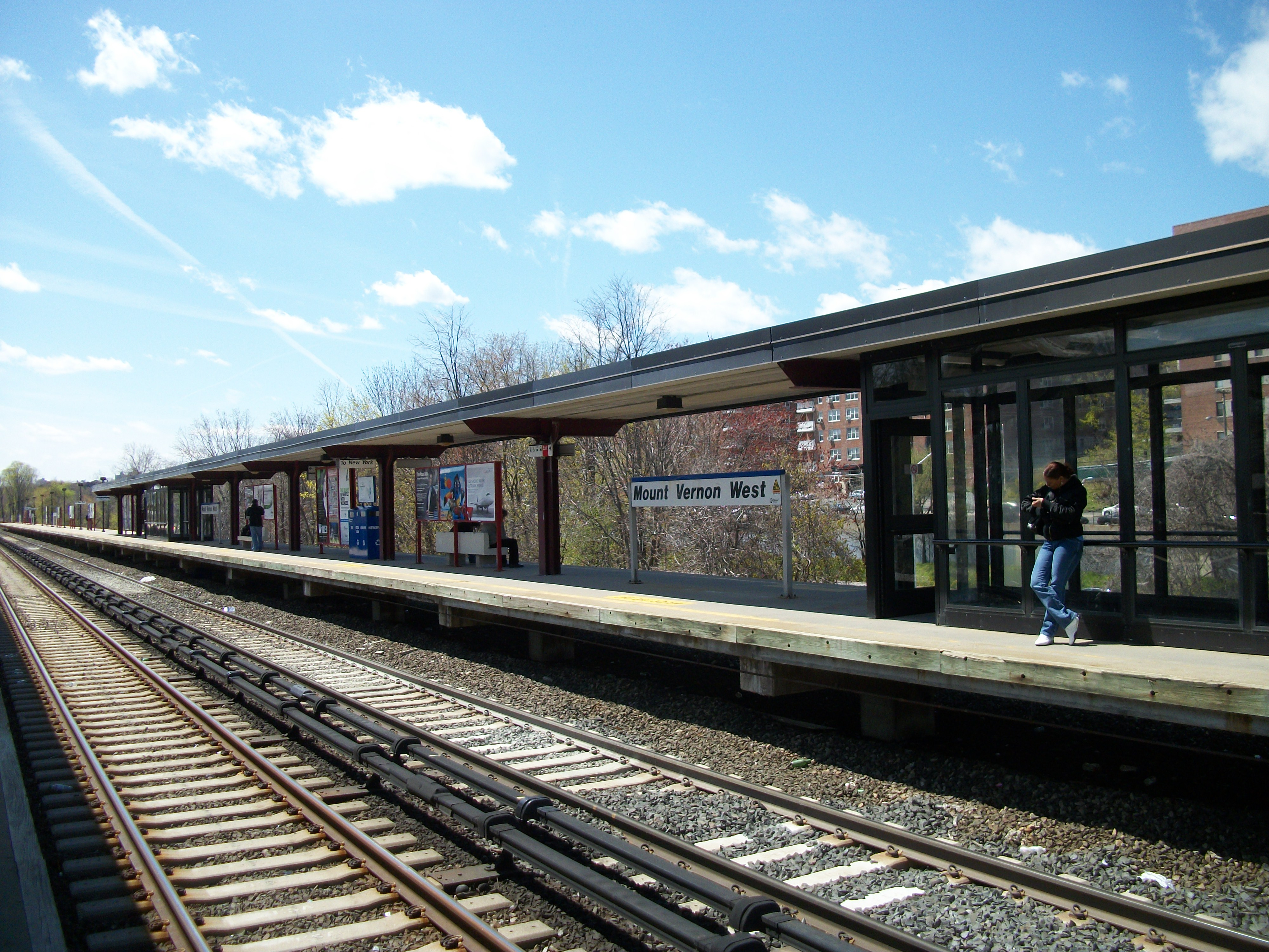 The platforms of Mount Vernon West (Metro-North station) in Mount Vernon, New York looking south toward Grand Central Terminal. A failed attempt to recreate the previously deleted File:Mount Vernon West Station.jpg (formerly File:Mv200.JPG), which still worked out for me.